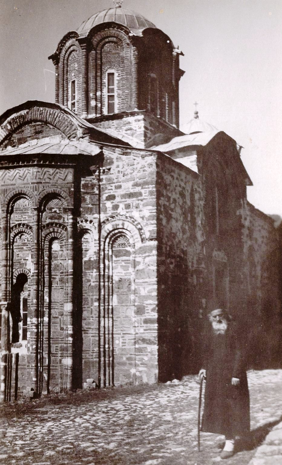 Lesnovo monastery, photo from 1930;s This media file is produced by Wikipedian in Residence in Category:Wikipedian in Residence at DARM in 2016.